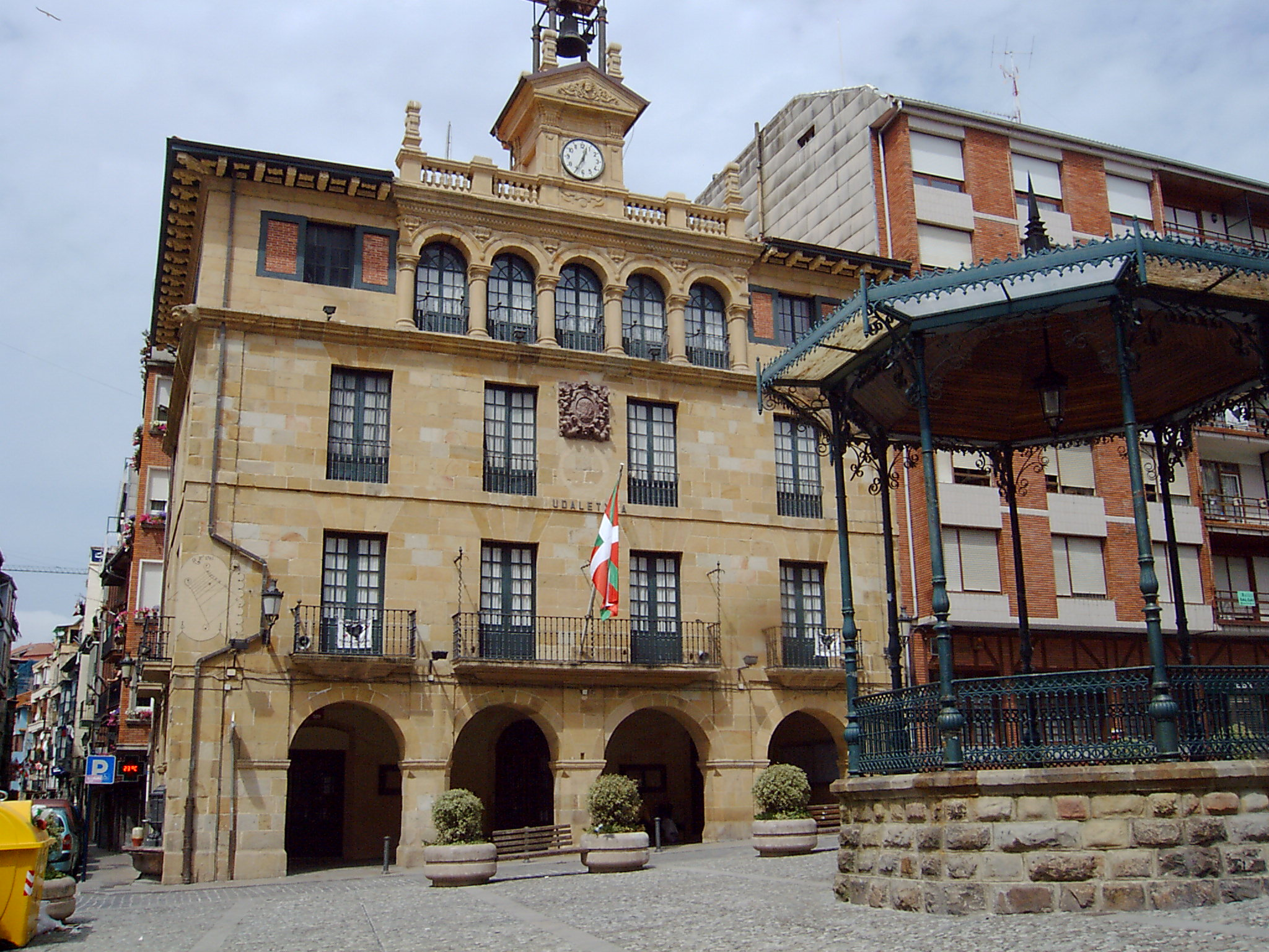 City hall of Bermeo (Biscay).